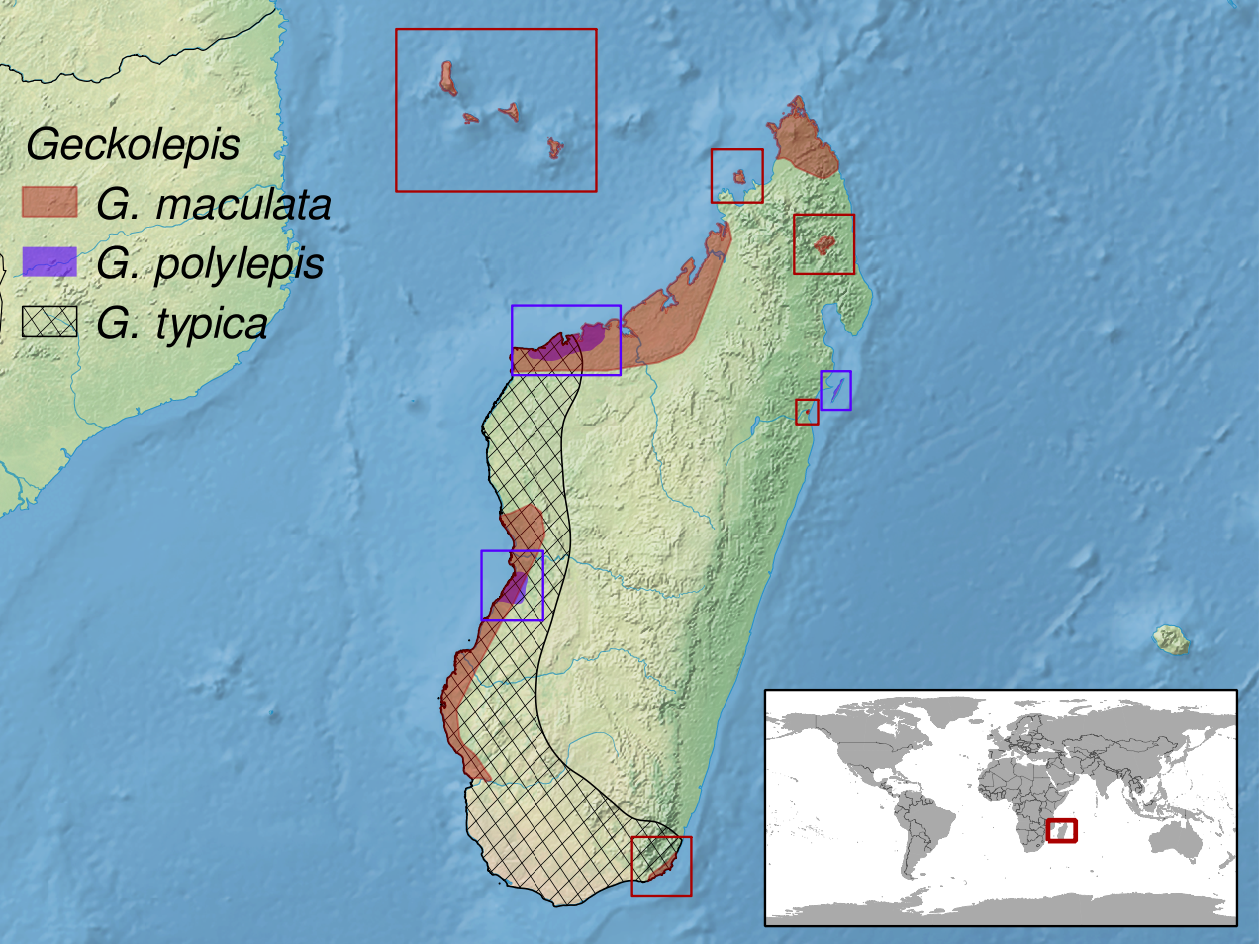 geographic distribution of the genus Geckolepis. Included species: Geckolepis maculata, Geckolepis polylepis and Geckolepis typica.